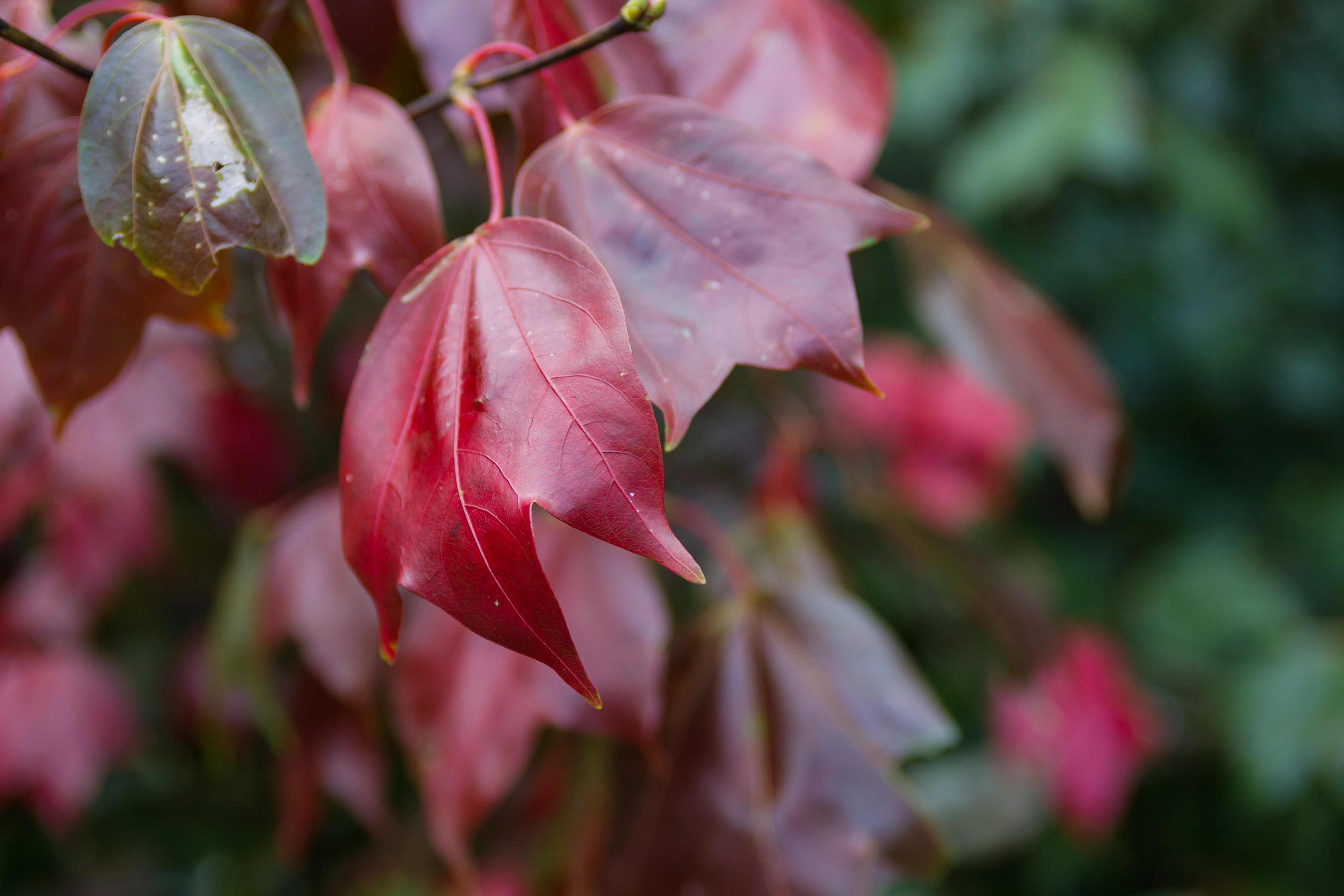 Acer calcaratum in Phu Kradueng National Park in the Si Than sub-district of Amphoe Phu Kradueng, Loei Province.